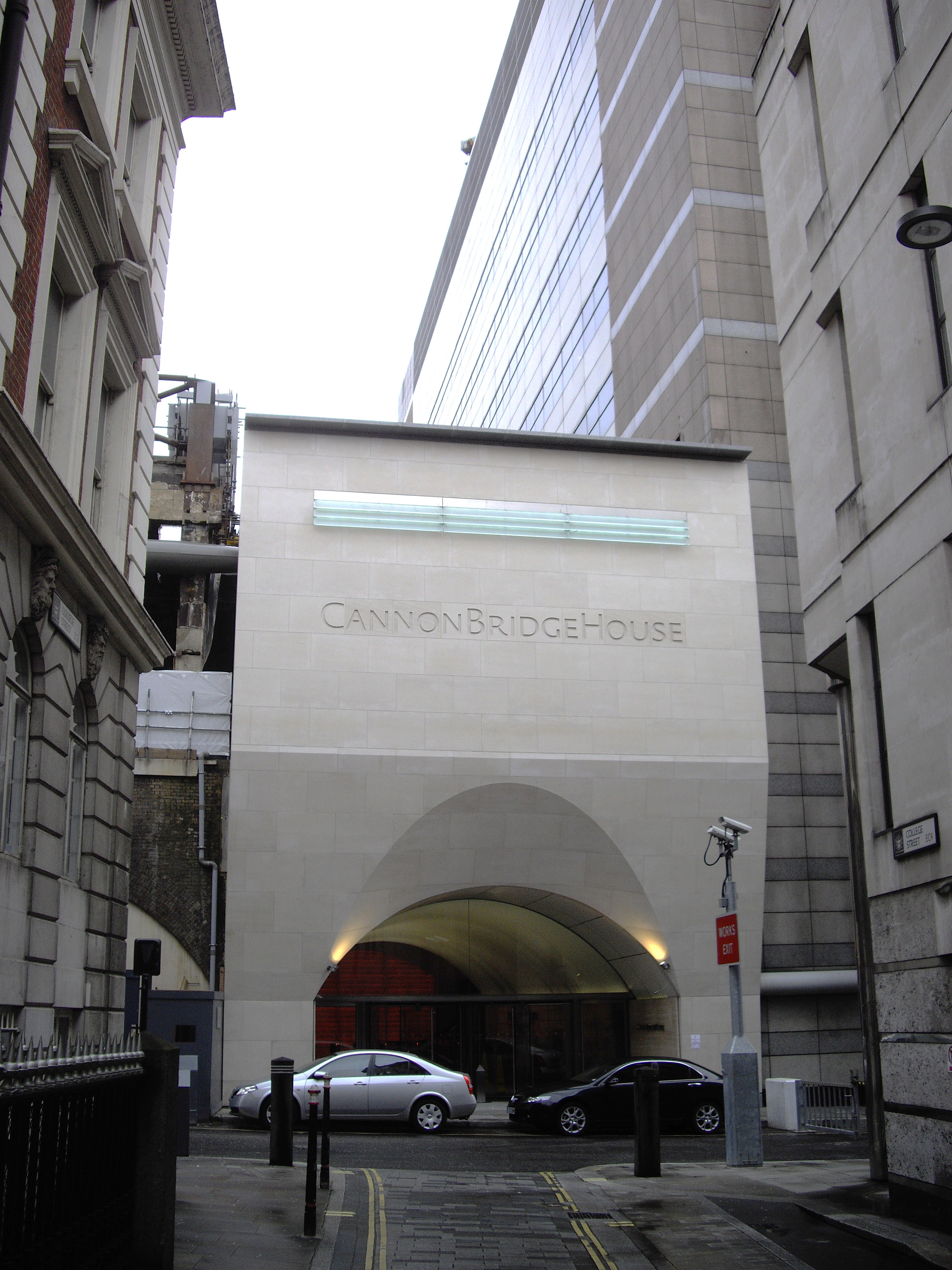 Entrance to Cannon Bridge House, Dowgate Hill, London Cannon Bridge House is situated above Cannon Bridge rail station. In 2006 the building was refurbished. This picture is taken from College Street.